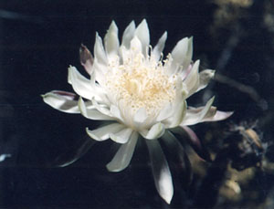 Flower of the endangered Peniocereus greggii.